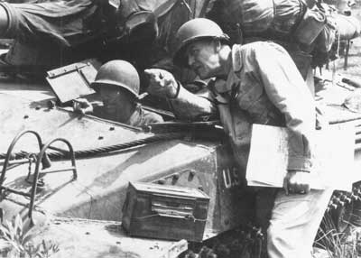 This was taken from and is part of the Marines in World War II Commemorative Series. The photo is of Major General A.D. Bruce.